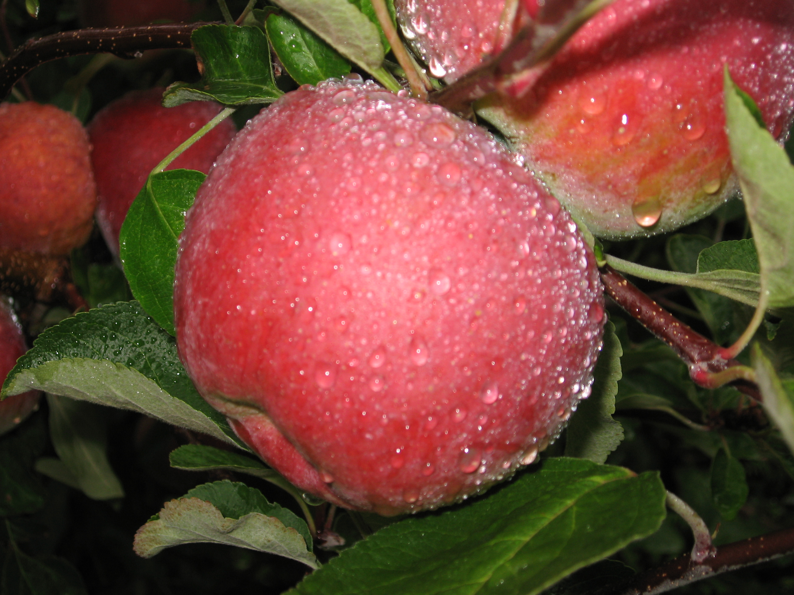 A Macoun apple, wet with raindrops, still on the tree. Taken at the Carlson Orchards in Harvard, Massachusetts.